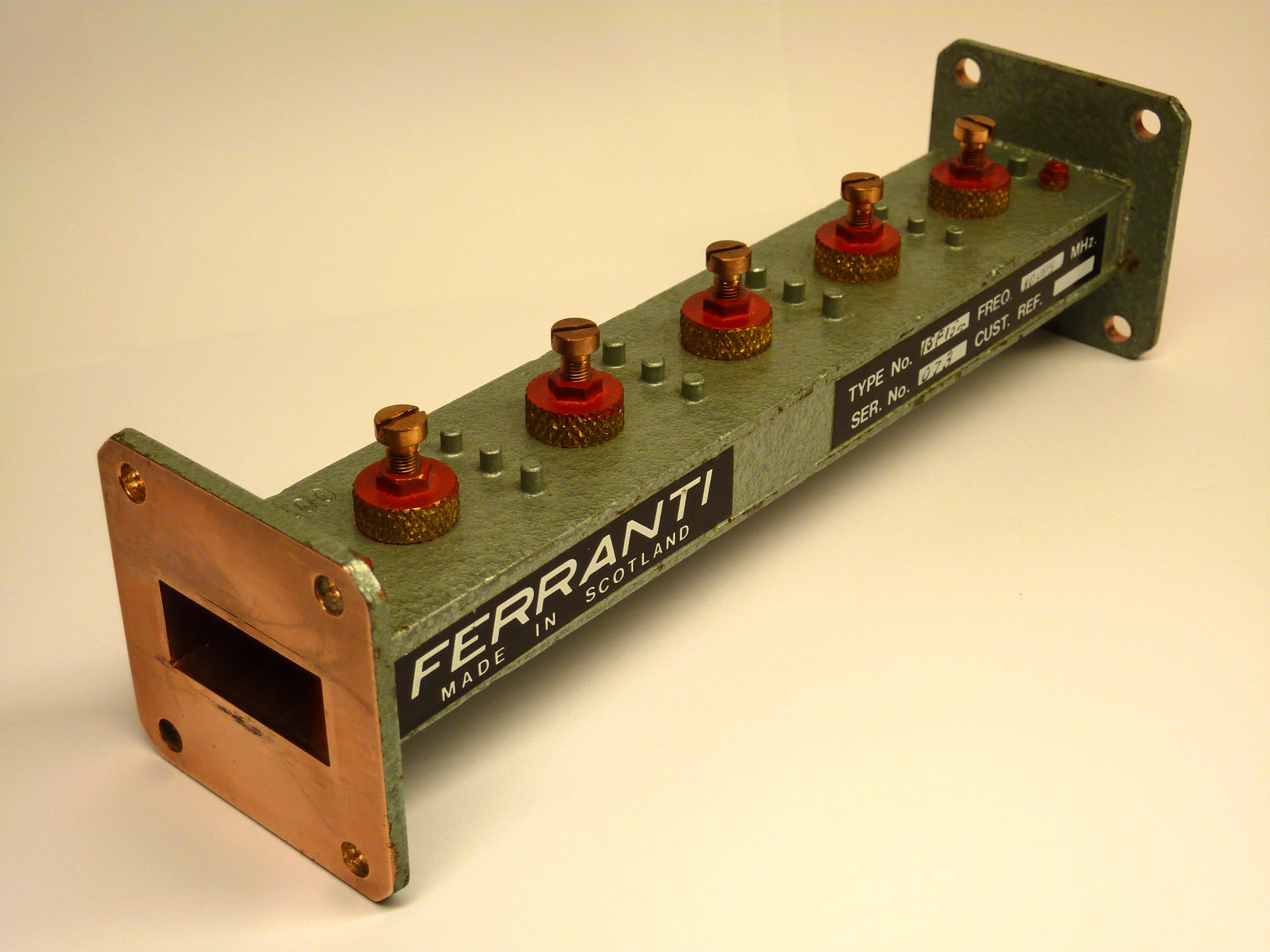 Five-resonator triple-post waveguide bandpass filter made by Ferranti. A length of WG15 (WR112) is divided into five coupled resonant cavities, by fences of three posts each. Each of the two end-cavities is separated from its respective port by a single post and a short adjustment screw. The ends of the posts protrude through each broad-wall of the guide, making them clearly visible from the outside. The resonators are each about 30 mm long and have a central tuning screw. All seven screws are secured by jam-nuts and thread-lock and are normally protected by plastic caps (removed for the photo). Centre frequency 7.200GHz Dimensions / mm (averaged and with spurious last digit) Along guide (post-diameter) (post-diameter): (3.18) (2.82) (3.18) (3.18) (2.82) (31.8) Fence pitch across guide: 7.11 Tuning screw diameter: 3.95, insertion ~2 End screw diameter ~2.2, insertion ~2 Guide: WG15-ish (tapers too narrow to too wide)